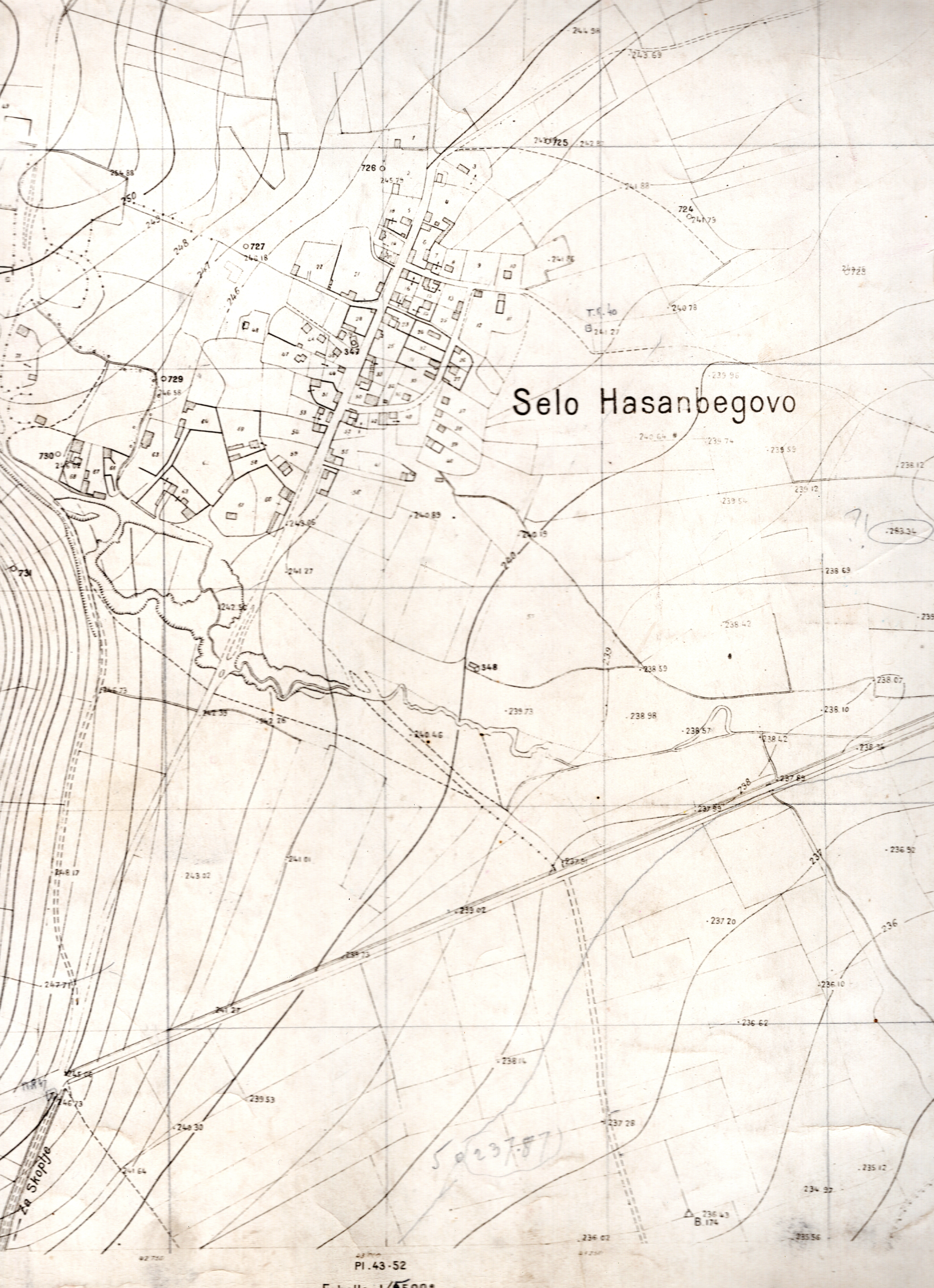 Geodesy map of Chento (Singelikj), then Hasanbegovo, an aero photogrammetric map (1930s). This media file is produced by Wikipedian in Residence in Category:Wikipedian in Residence at DARM in 2017.